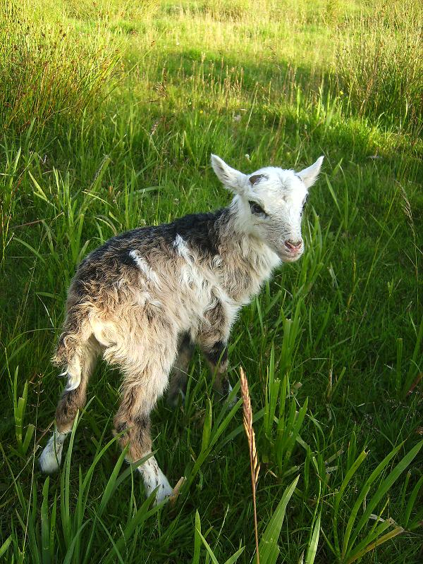 male lamb of the swedish breed Gute sheep (Gutefår), 2 days old, from my own flock